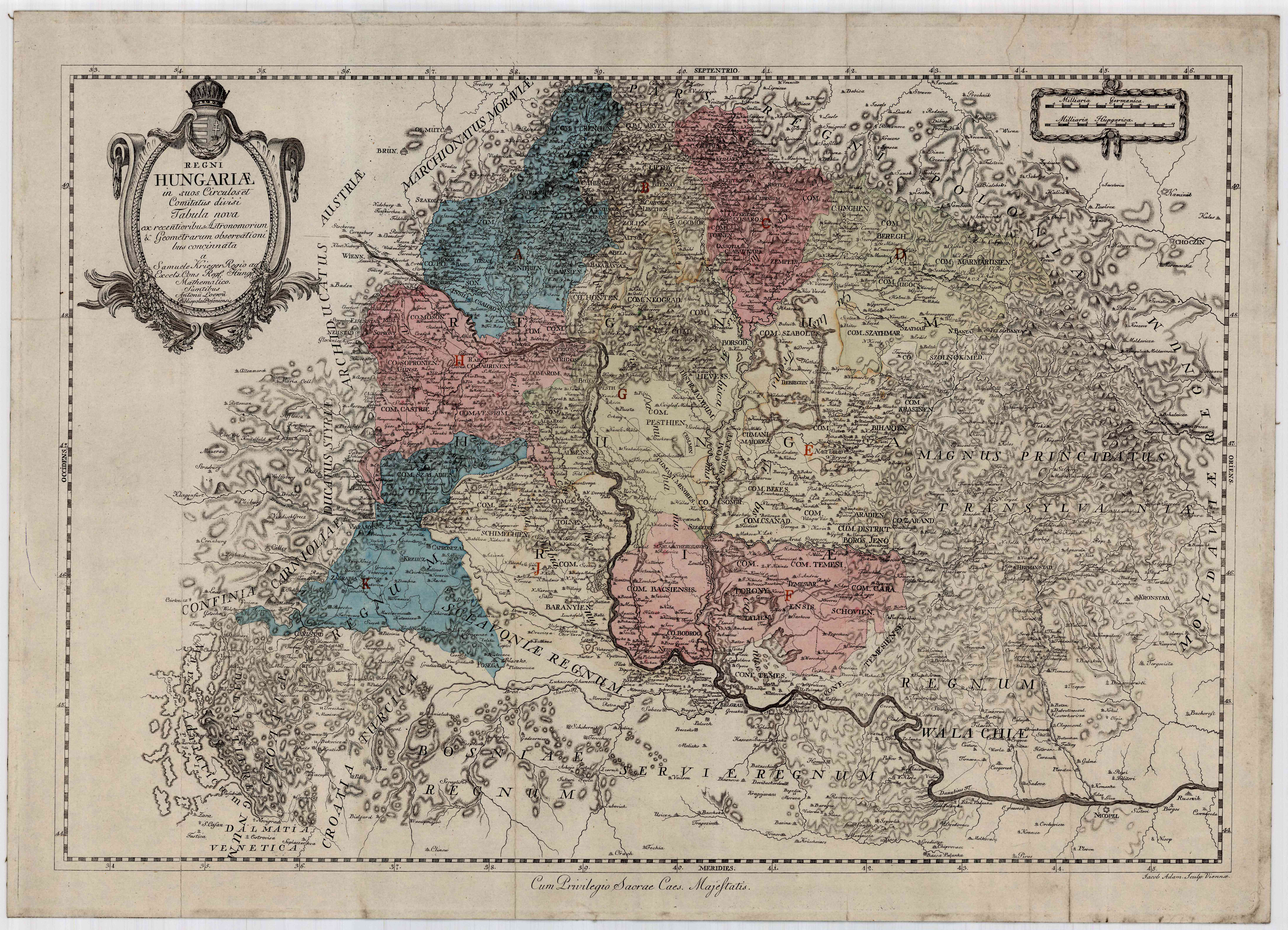 Regni Hungariae in suos circulos et comitatus divisi tabula nova...